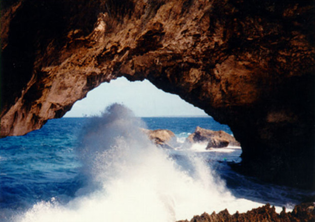 View from inside the collapsed at Hufangalupe.